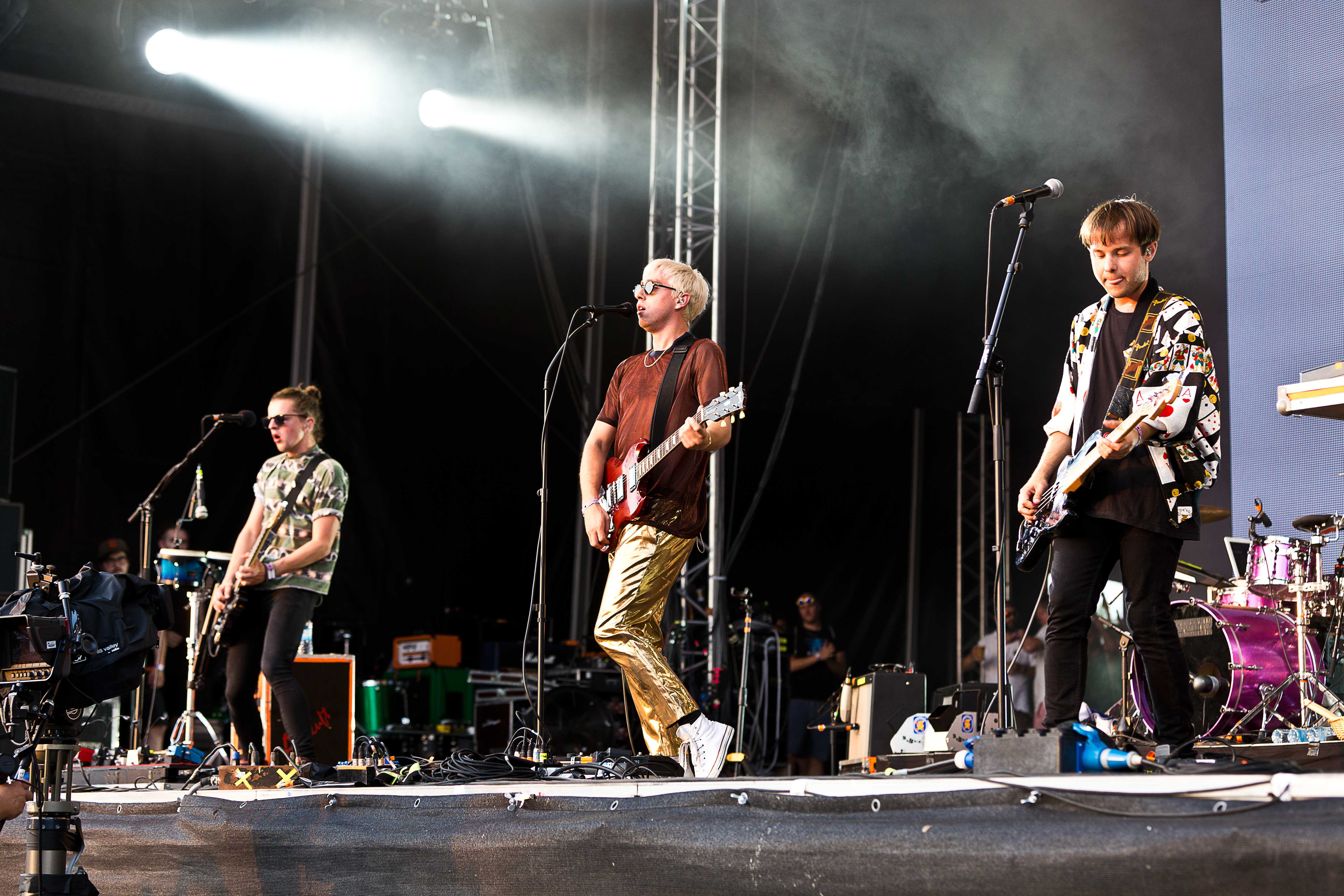 The Austrian rock band Bilderbuch at the Melt! 2015 in Ferropolis/Germany.